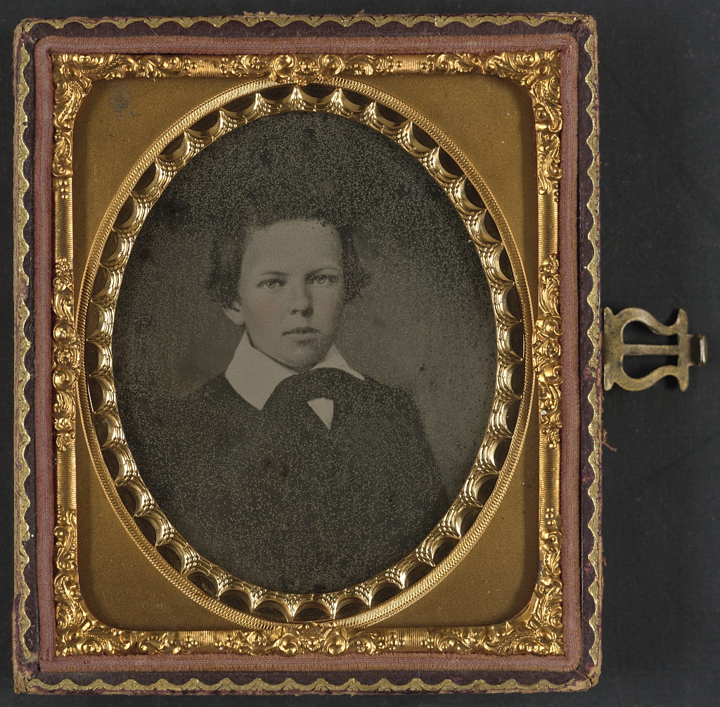 Ambrotype image taken circa 1860, in the collection of the LIbrary of Congress